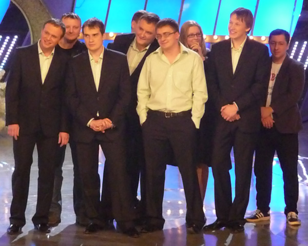 Team "Prima" Kursk. KVN's final game. 2009